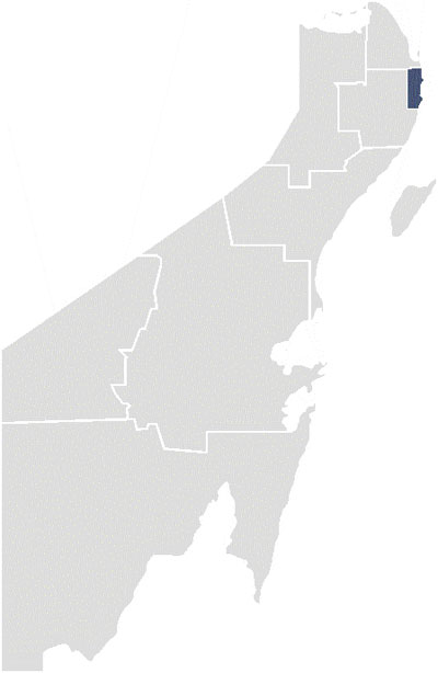 Map of the Third Federal Electoral District of the State of Quintana Roo, México.